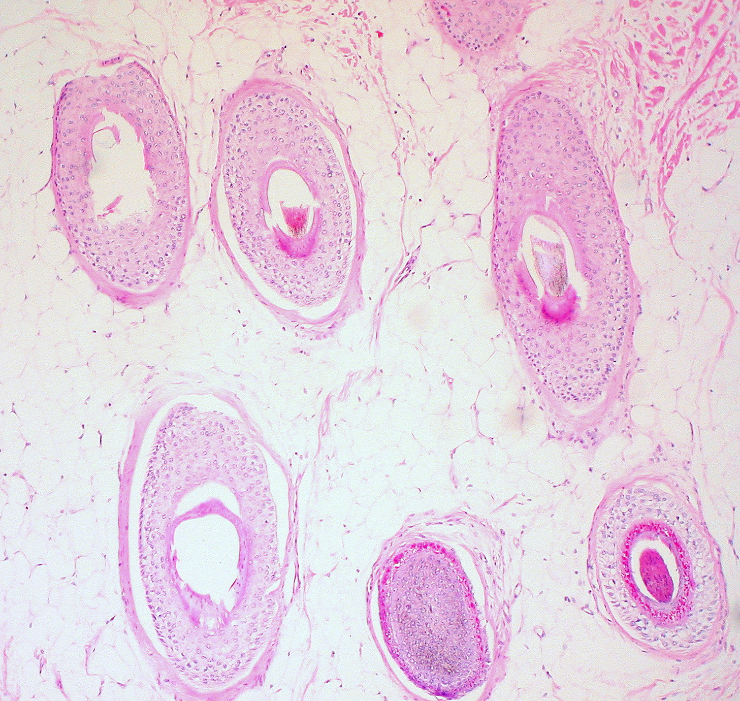 Mature Cystic Teratoma of the Ovary: Hair Follicles Pathological and histological images courtesy of Ed Uthman at flickr.